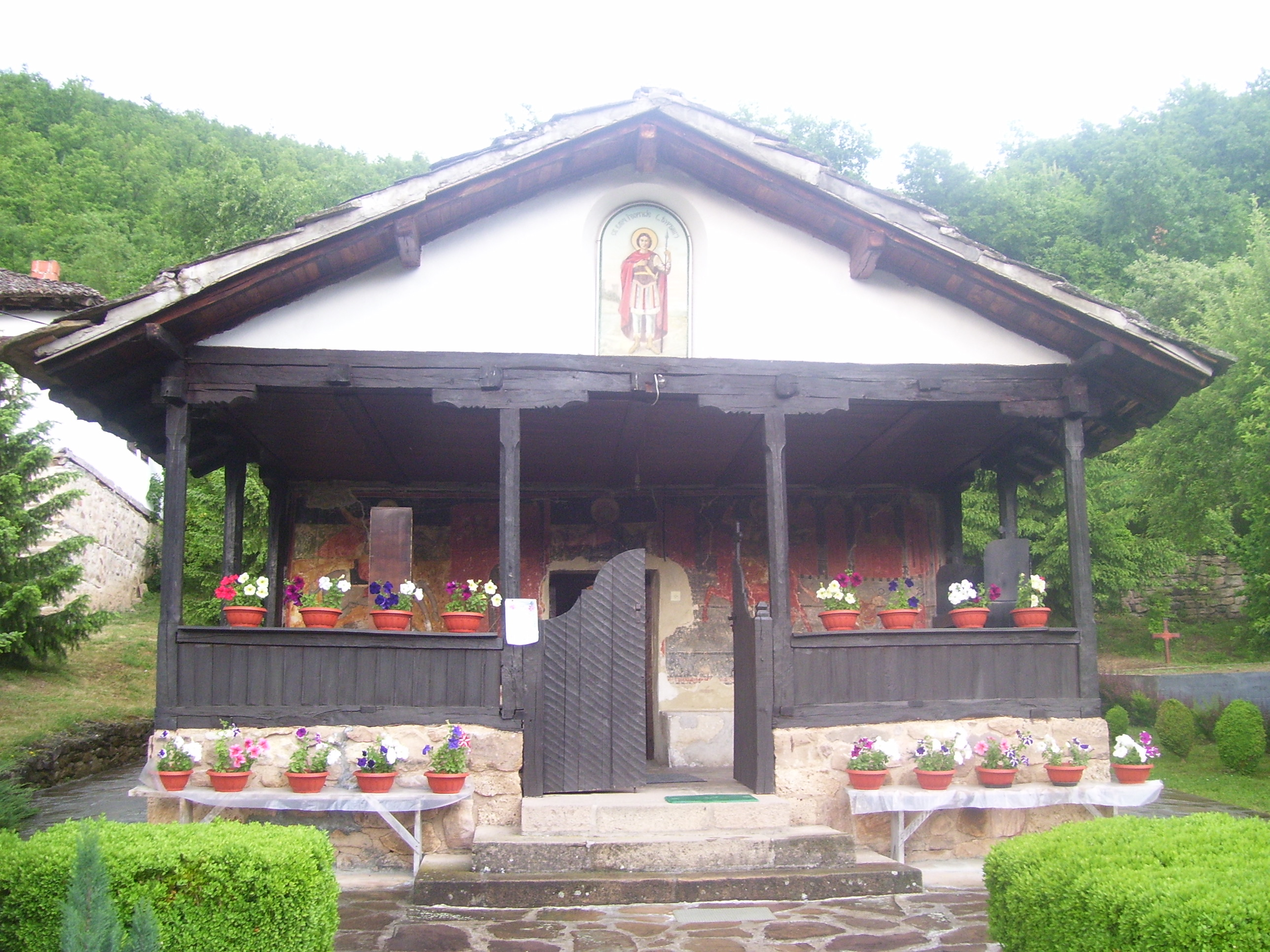 Temska monastery.